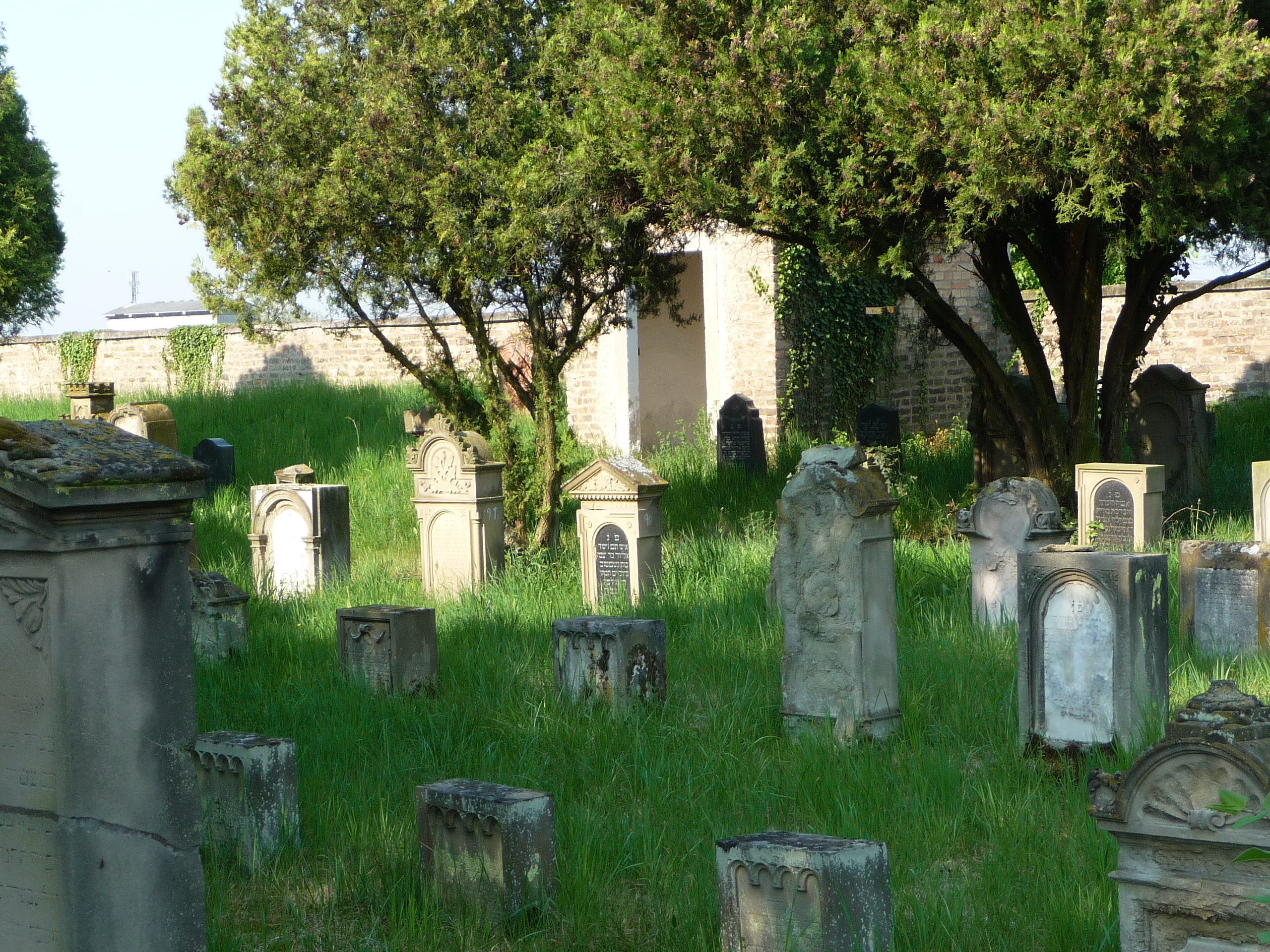 Judenfriedhof Otterstadt